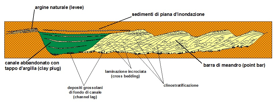 Generalized section of a point bar. Text in Italian.